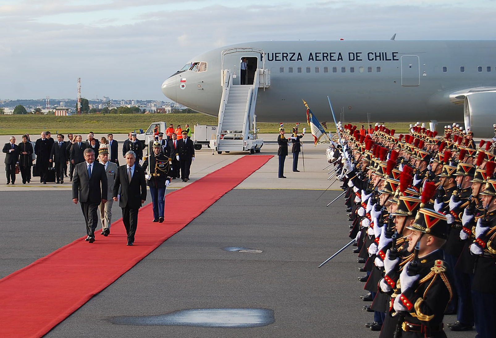 Sebastián Piñera's arrival in Paris, 2010.